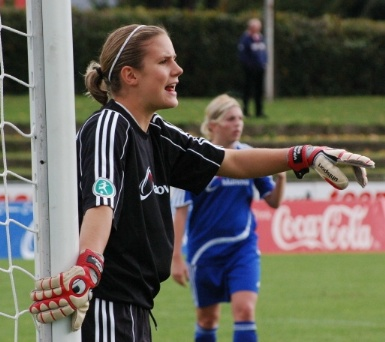 football, women, ffc frankfurt, alisa vetterlein